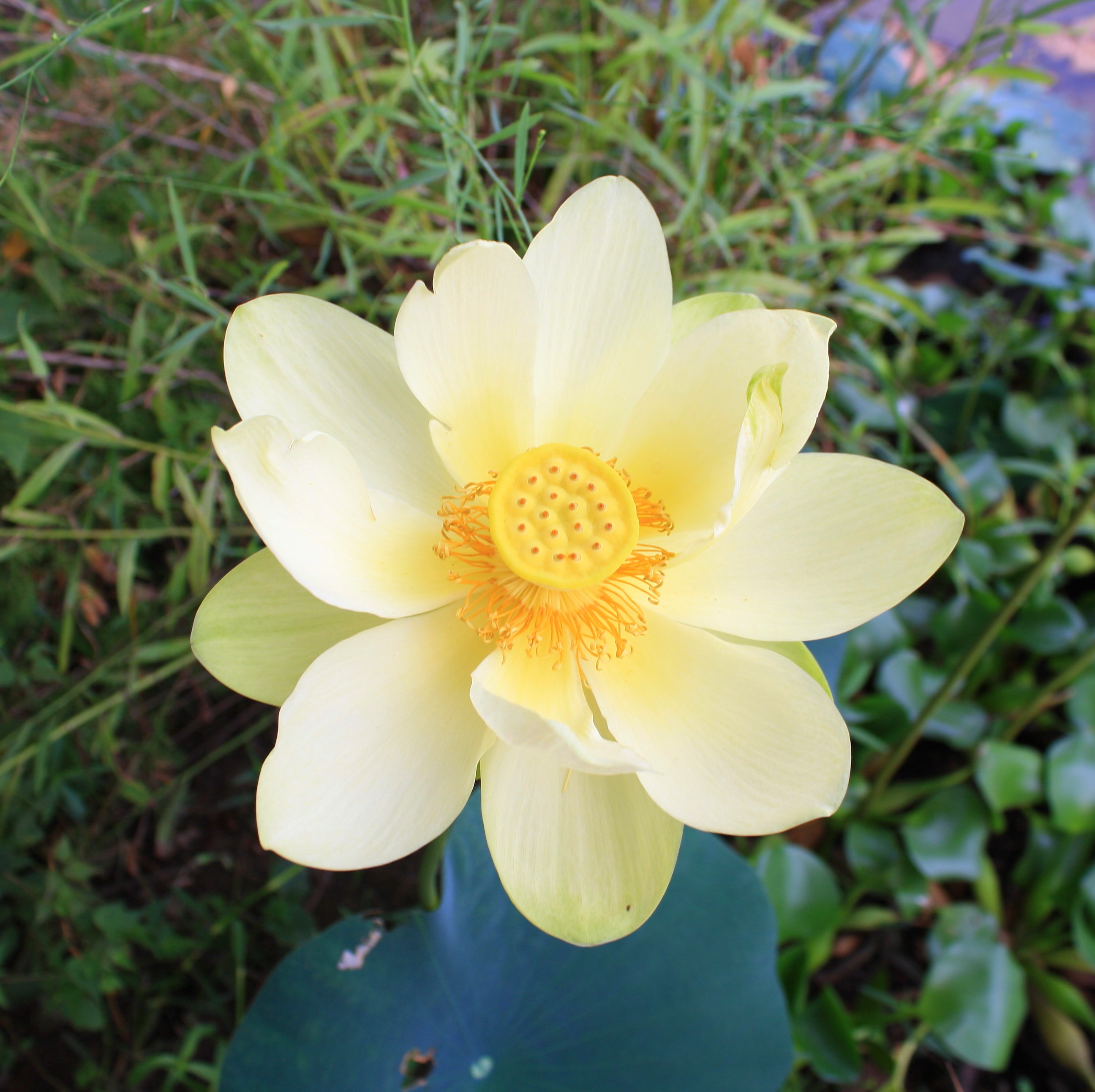 American Lotus (Nelumbo lutea) in bloom on Lake Dannelly, Millers Ferry, Alabama.